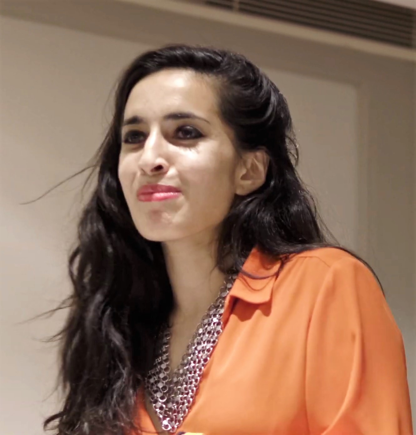 Labour Party Conference 2019 Health campaigns Together Fringe meeting: Uniting the fight for our NHS. Dr Sonia Adesara, NHS Doctor and Campaigner